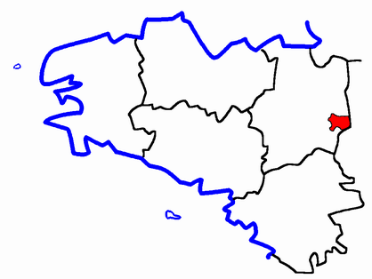 Description: Map for localisazion of cantons of Bretagne region in France Source: made by Hervé Tigier from another large map